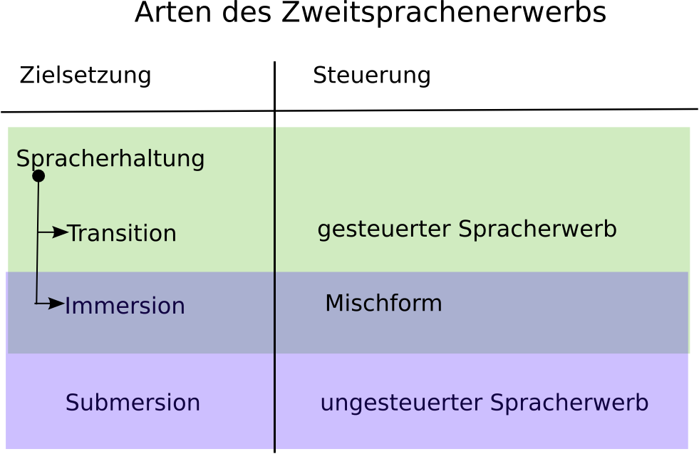 linguistics : 2nd-language-learning